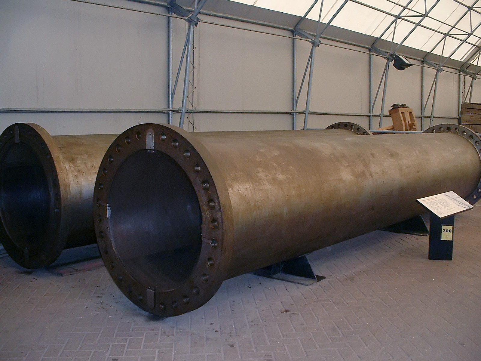 Two sections of the Iraqi supergun Big Babylon at the Royal Armouries, Fort Nelson. Photograhed 26-Apr-06.